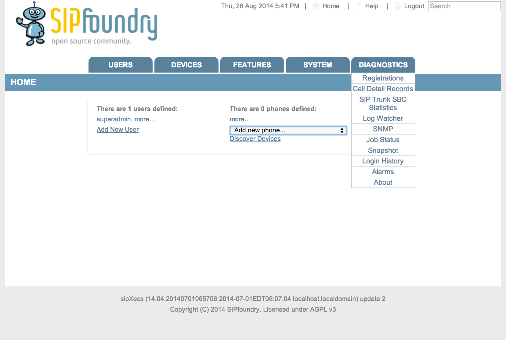 Administrative Web user interface of the sipXecs Enterprise Communications System, release 14.04 (April 2014)